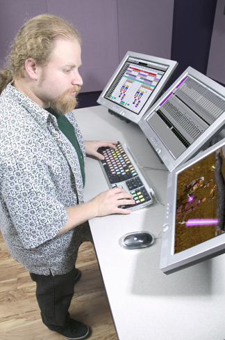 Photograph of Jory Prum in his studio I own this photo. It is a publicity image.